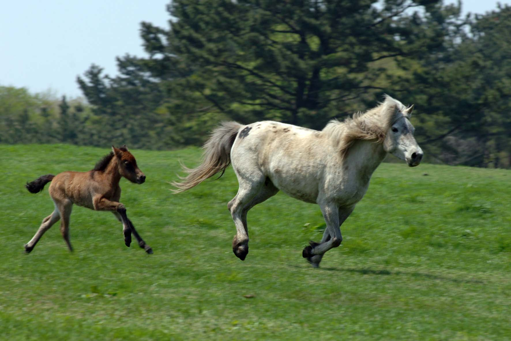 Jeju horse (mother and daughter)